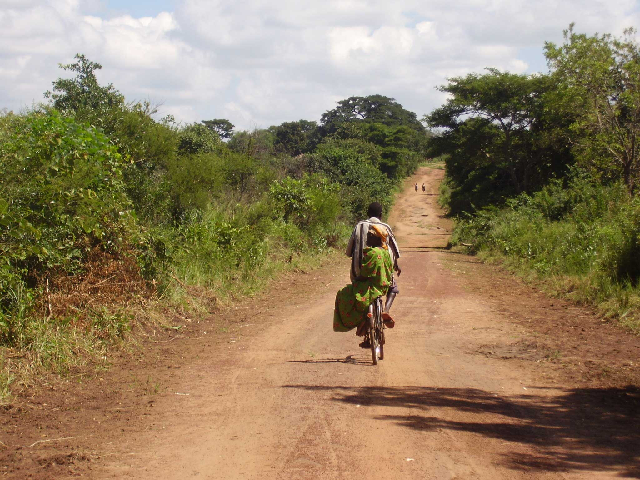 The road between Otuboi and Bata near the Teso/Lango border.